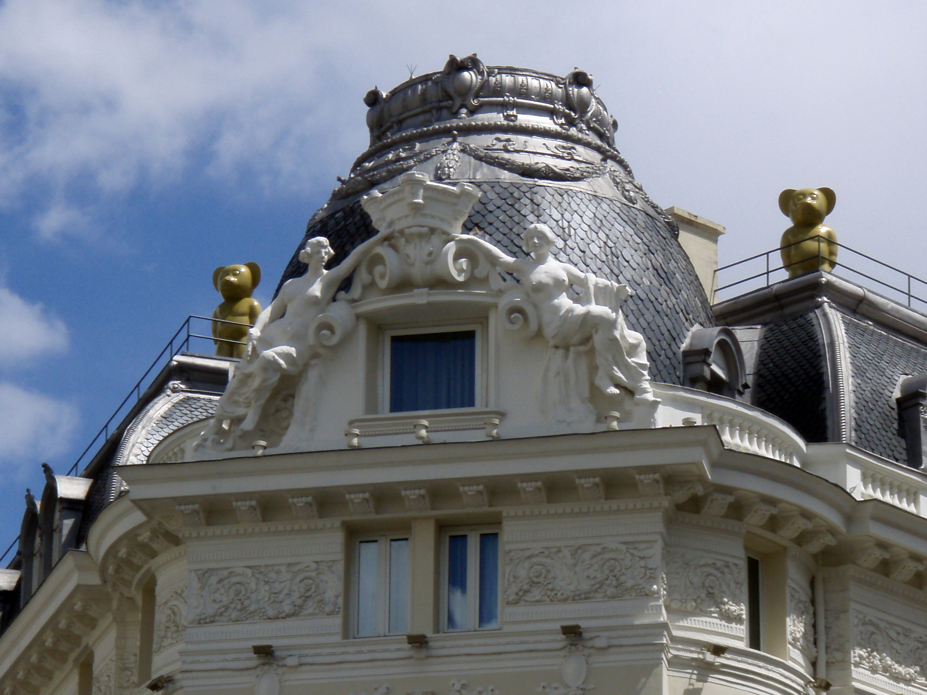 Detail of the Palace Hotel in Madrid (Spain).